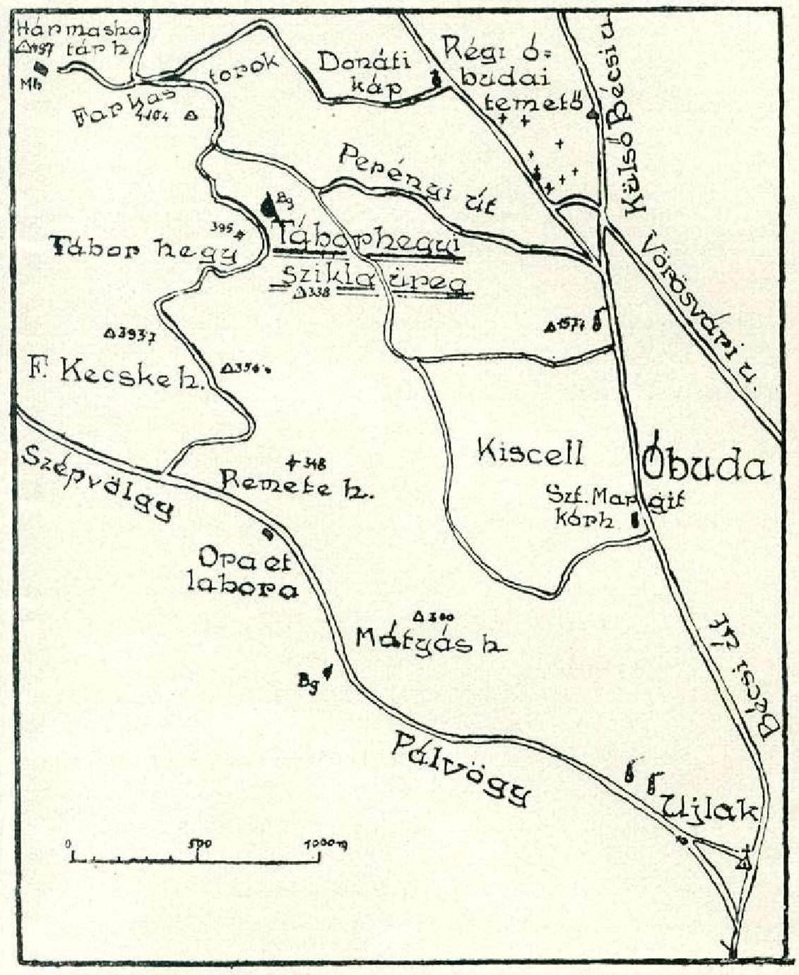 Place of the Tábor-hegyi Cave.